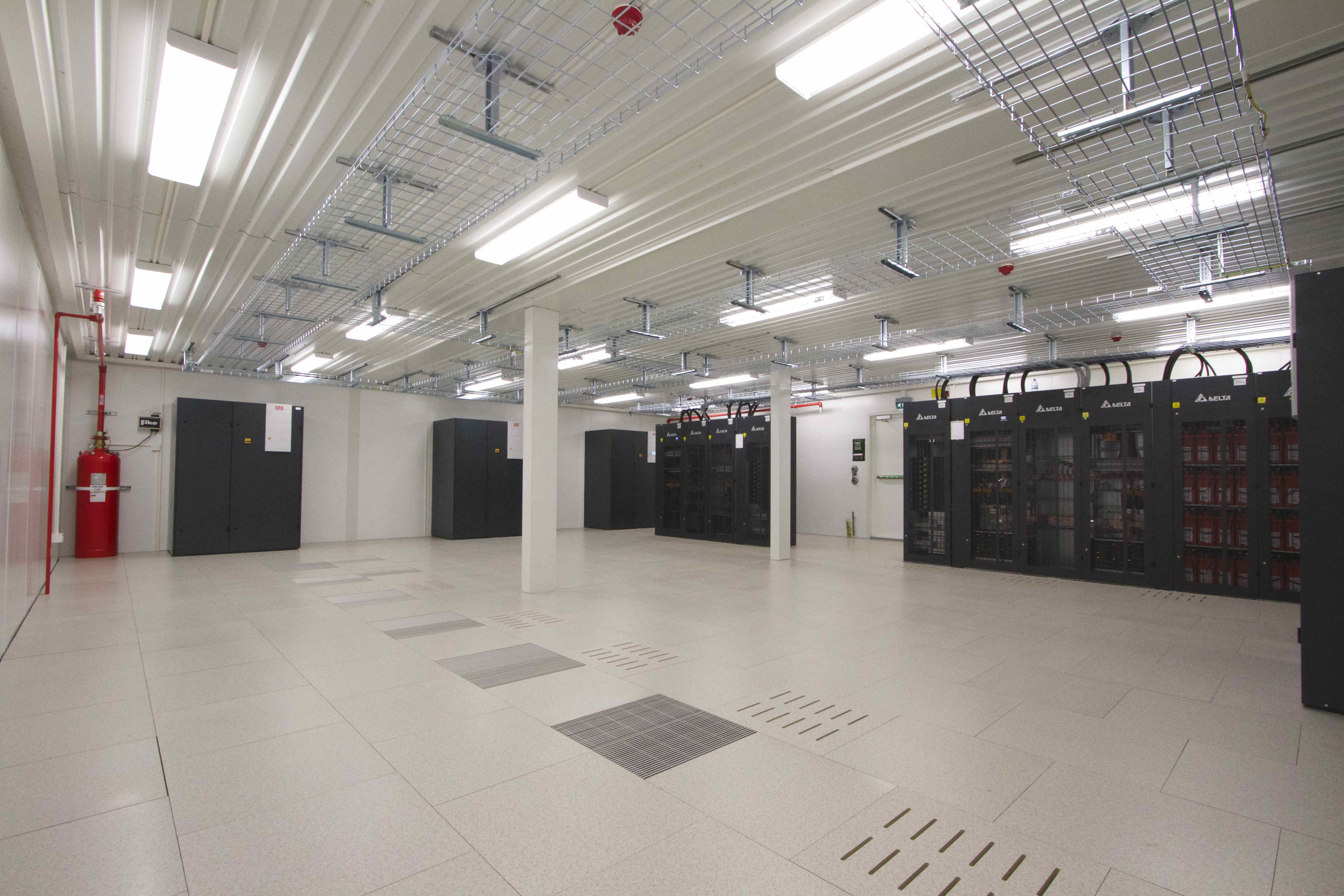 eCentre by Swedish company Flexenclosure in Mozambique.